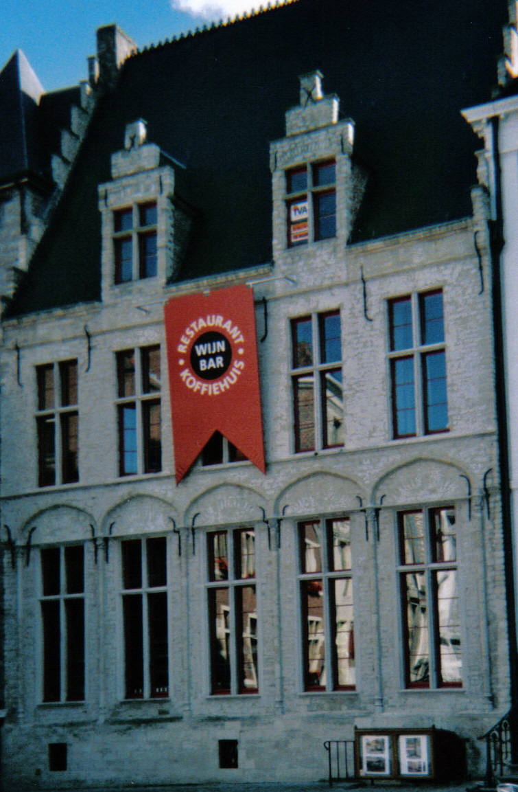 Historic residence of Margaret of Parma in Oudenaarde, Belgium.